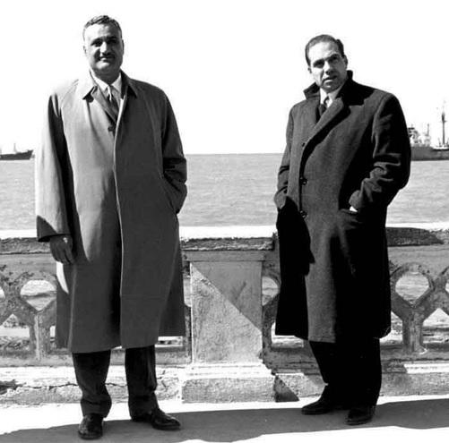 United Arab Republic President Gamal Abdel Nasser (left) and Vice President Abdel Hamid al-Sarraj (right) in Latakia, Syria.